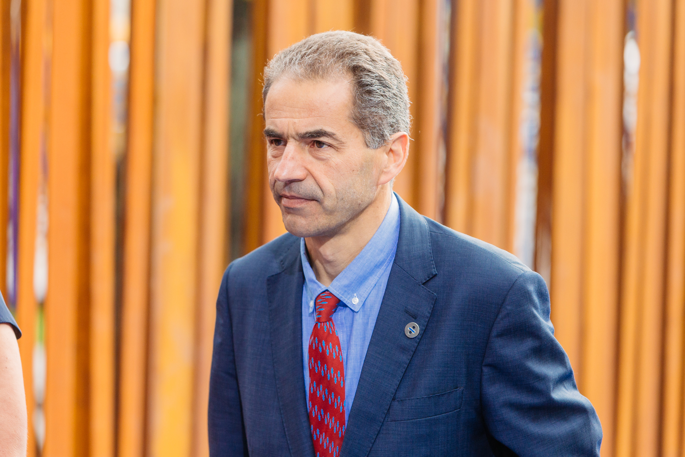 Manuel Heitor, Minister, Ministry for Science, Technology & Higher Education, Portugal Photo: Arno Mikkor (EU2017EE)